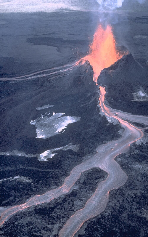 An effusive eruption of basalt lava from Pu`u `O`o spatter and cinder cone at Kilauea Volcano, Hawai`i. Lava spilling from the cone has formed a series of `a`a lava channels and flows.